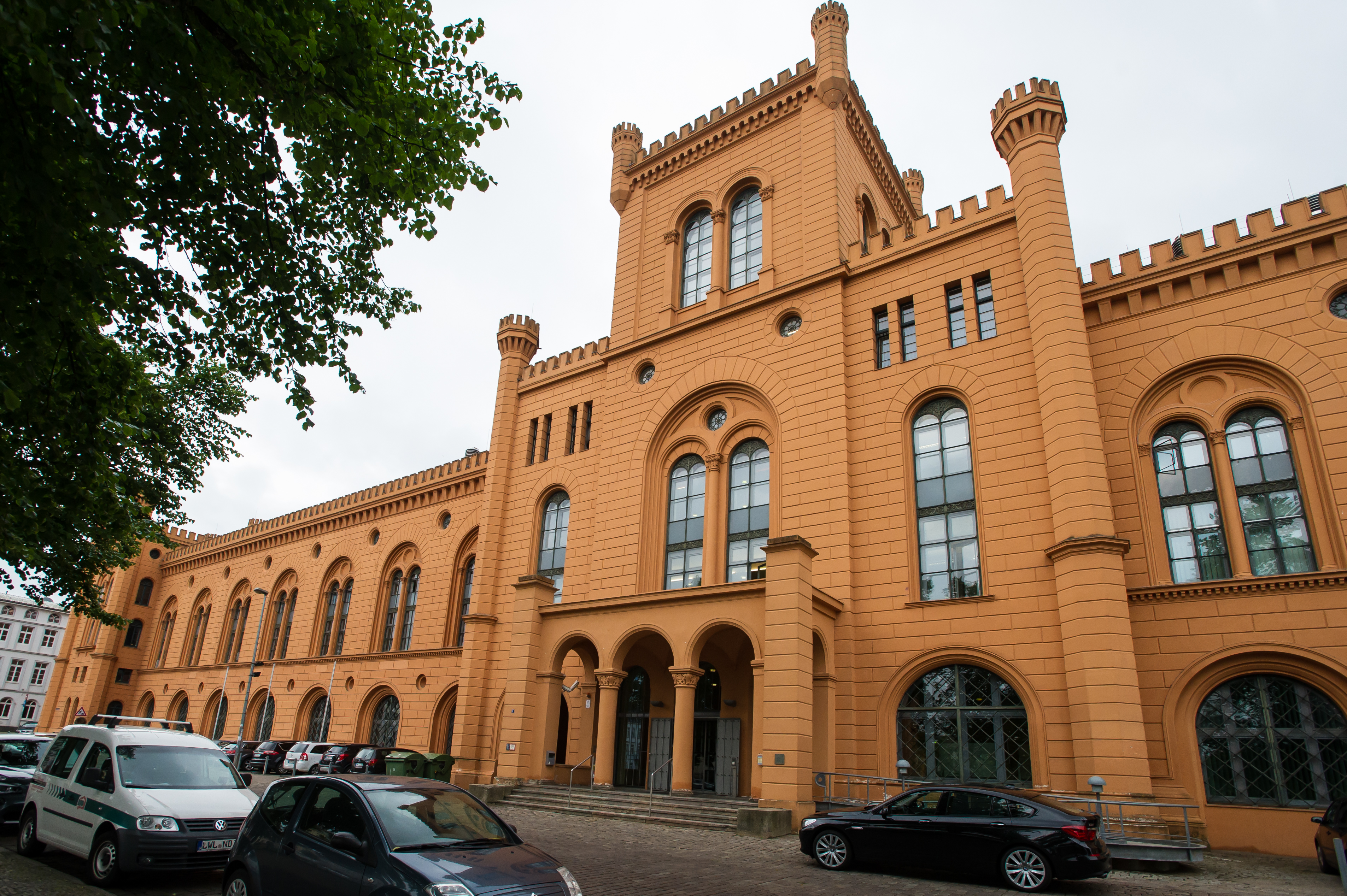 Wikipedia im Landtag – Mecklenburg-Vorpommern 19. bis 21. Juni 2013 in Schwerin Fragen zur Nachnutzung Wenn Sie Fragen zur Nachnutzung dieses Bildes haben, können Sie sich jederzeit gern an wenden Personality rights warningAlthough this work is freely licensed or in the public domain, the person(s) shown may have rights that legally restrict certain re-uses unless those depicted consent to such uses. In these cases, a model release or other evidence of consent could protect you from infringement claims.